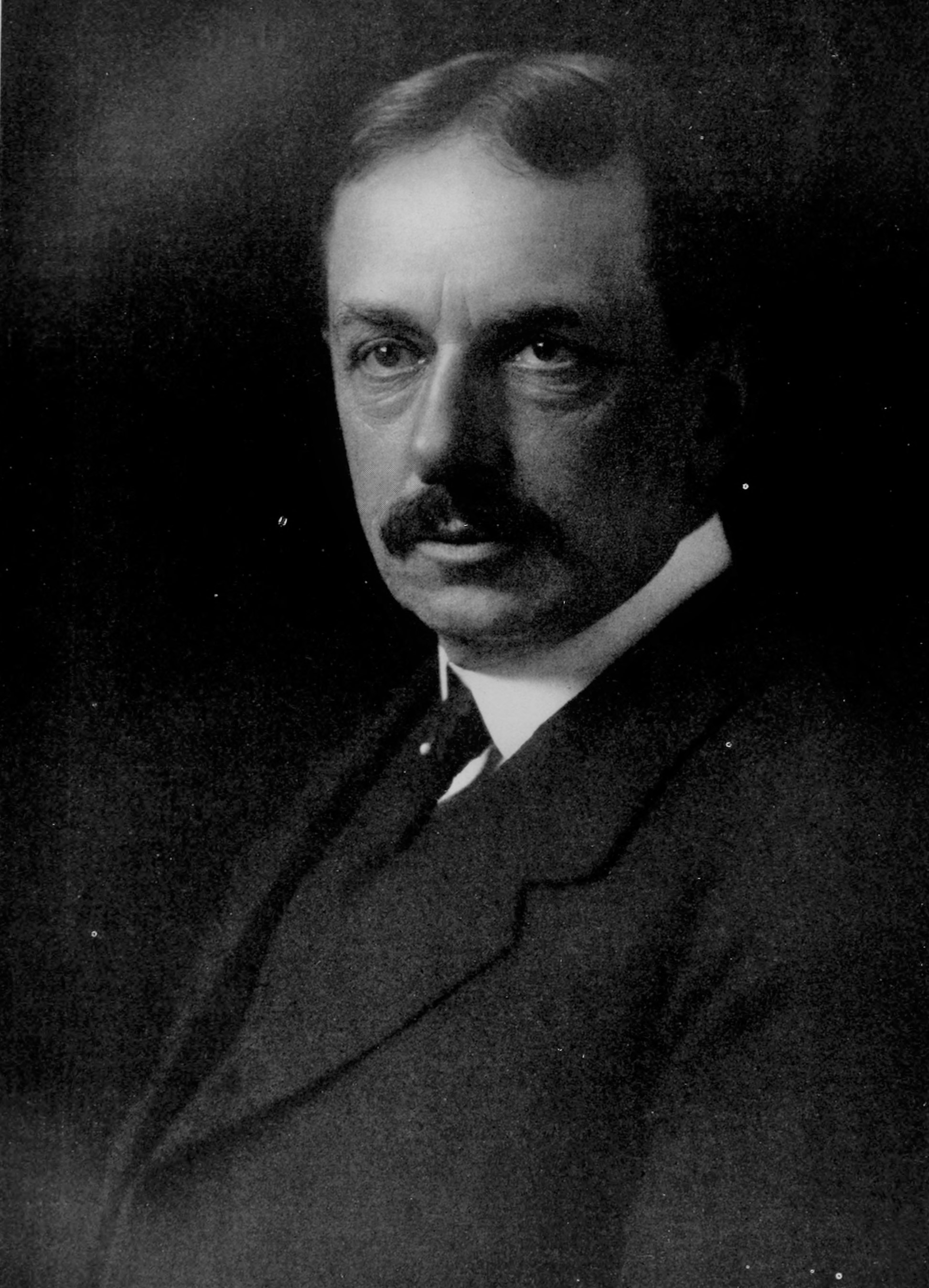 Professor Henry Fairfield Osborn Title: The American Museum journal Year: c1900-(1918) (c190s) Authors: American Museum of Natural History Subjects: Natural history Publisher: New York : American Museum of Natural History Text Appearing Before Image: ' Text Appearing After Image: rholo In- Fowler, Evansion PRCFESSOR HENRY FAIRFIELD OSBORN Author of a recent book on the extinct anccslcrs of man, Men of the Old SIvne Age, pubhshed by Charles Scribner-s Sons; Da Costa professor of zoology in Columbia University, Curator Emeritus of vertebrate pateon- lolo.'V and President of the Hoard of Trustees in the American Museum of Natural History — See " ' Men of the Old Stone Ape" — A Review, page lo